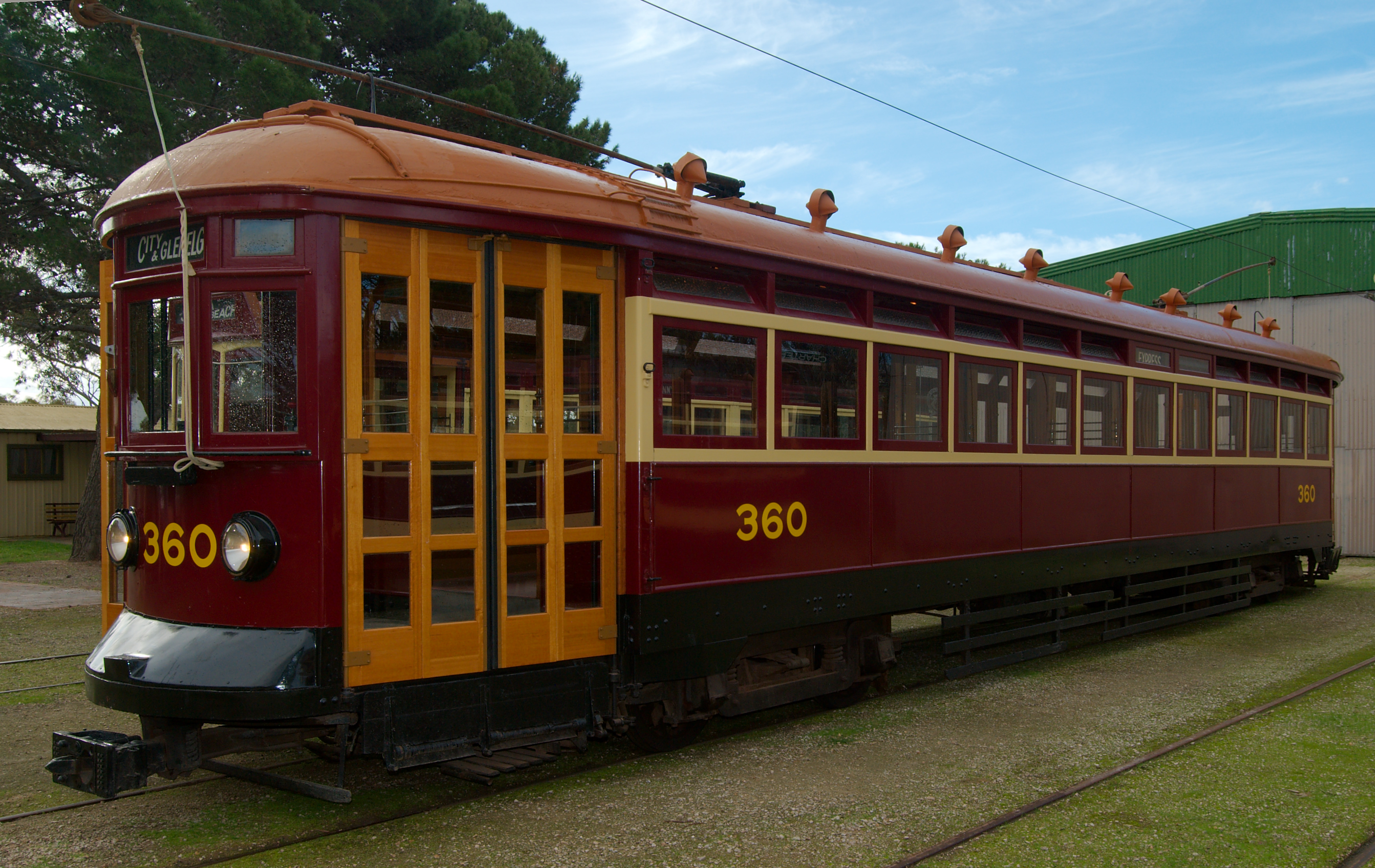 Adelaide 1929, Type H Electric, Number 360 tram formerly used on the glenelg line. At the St Kilda tram museum, Adelaide, South Australia